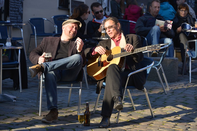 zwei Künstler sitzen in der Nürnberger Altstadt